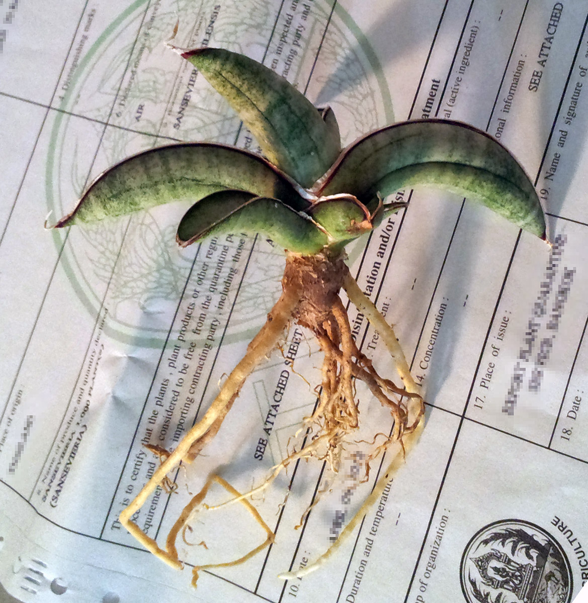 Uprooted S. eilensis showing underground rhizome and thick fleshy roots.